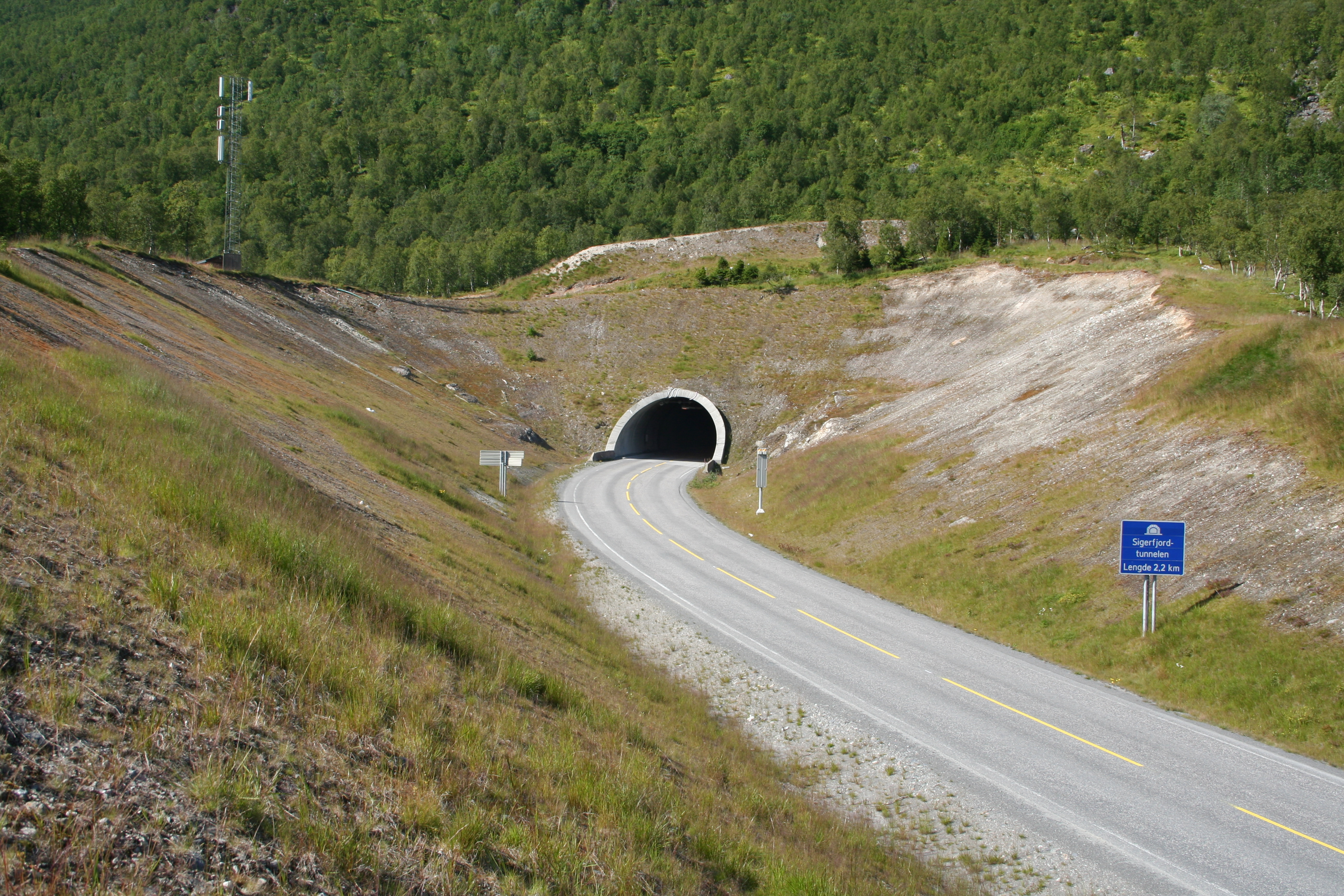 The southern portal of Sigerfjord tunnel in Norway. This picture was taken by me on 5 August 2006.